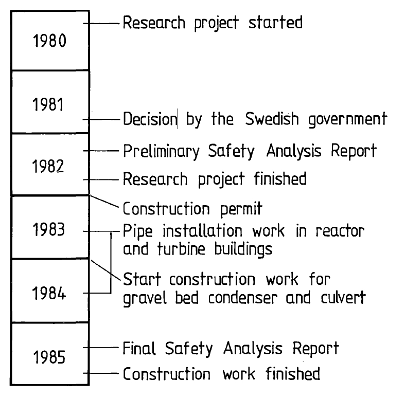 Overview of time schedule for implementation of FILTRA at Barsebäck